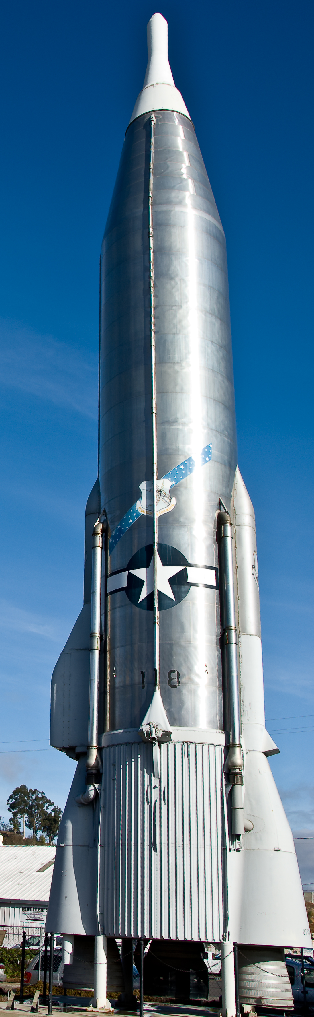 Atlas 2E Ballistic Missile on display at the San Diego Aerospace Museum, Gillespie Field, El Cajon, California